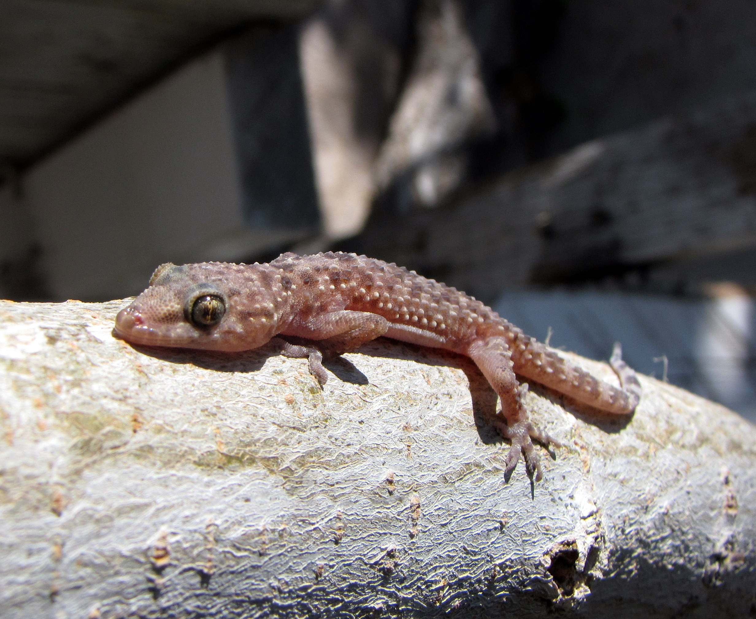 Image of a Mediterranean house gecko taking a fast bask early morning.